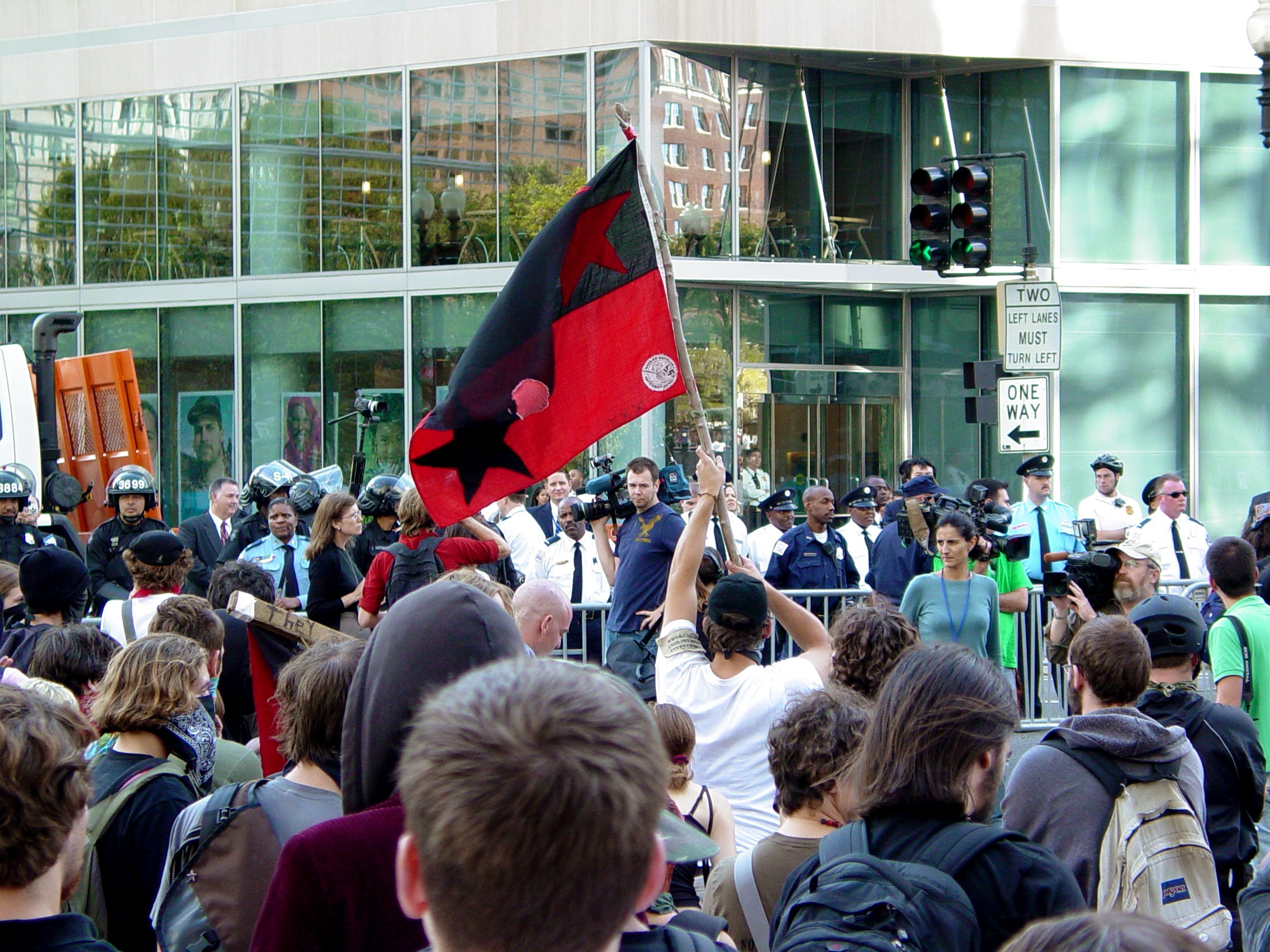 A protester waves a red and black flag during a demonstration against the World Bank and International Monetary Fund.